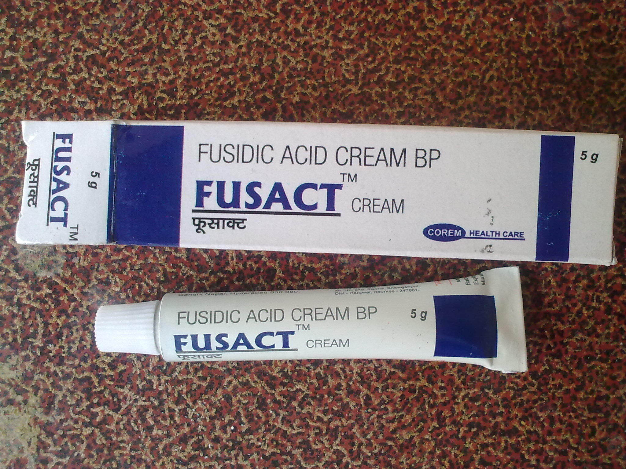 a photograph of scissors